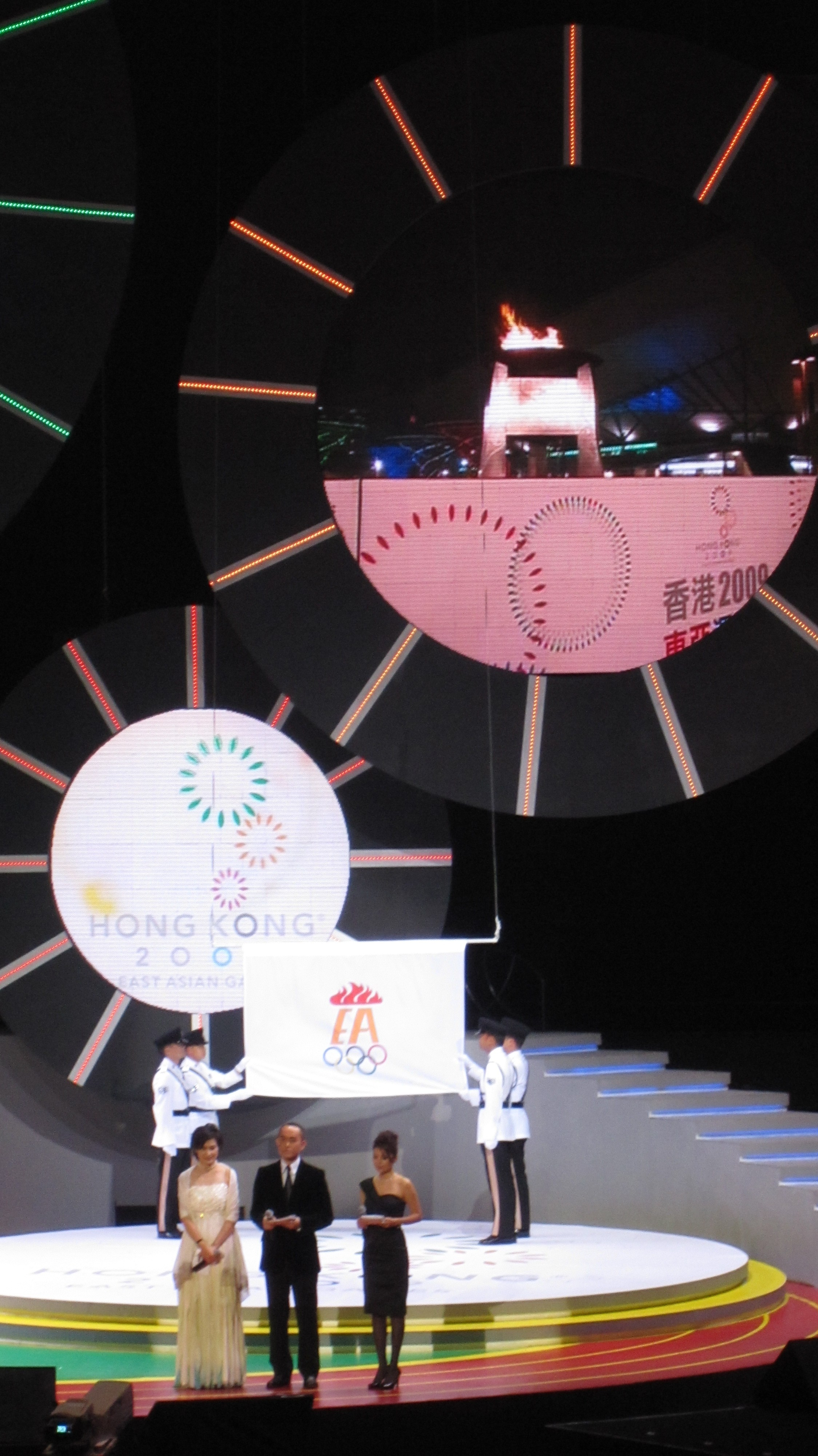 Hong Kong East Asian Games Closing Ceremony